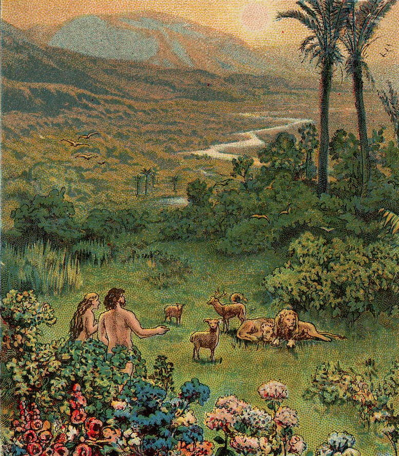 Man Made in the Image of God, as in Genesis 1:26 to 2:3, illustration from a Bible card published 1906 by the Providence Lithograph Company